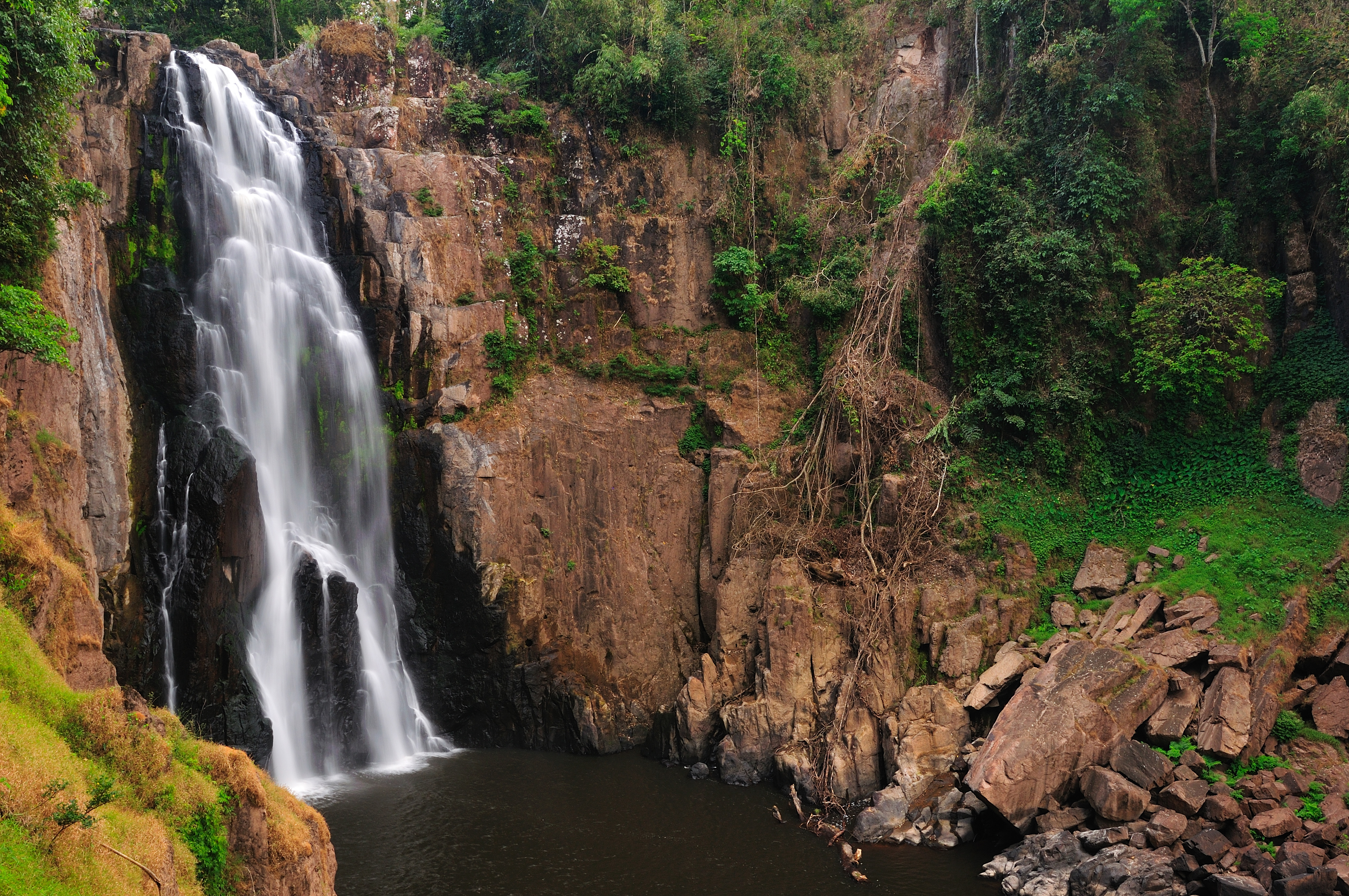 Haew Narok Waterfall first tier - Khao Yai National Park, Thailand Photo by